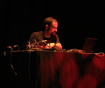 Murcof (Fernando Corona) performing live at L'Auditori, Sonar Festival, Barcelona, Spain.